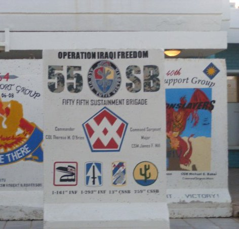 55th Sustainment Brigade T-Wall in Joint Base Ballad, Iraq